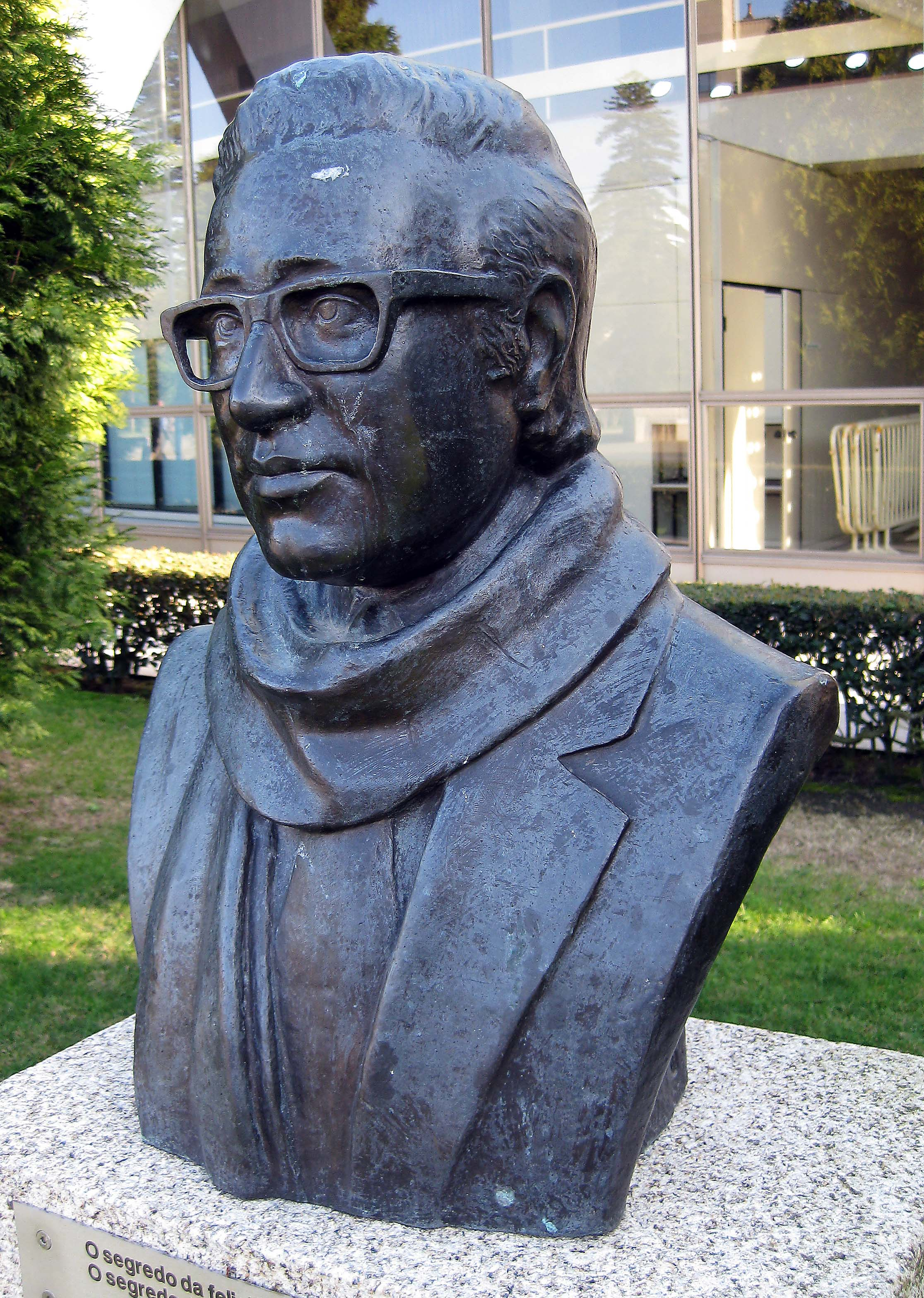 Adelino Amaro da Costa (Politician) - Cristal Palace - Oporto - Portugal